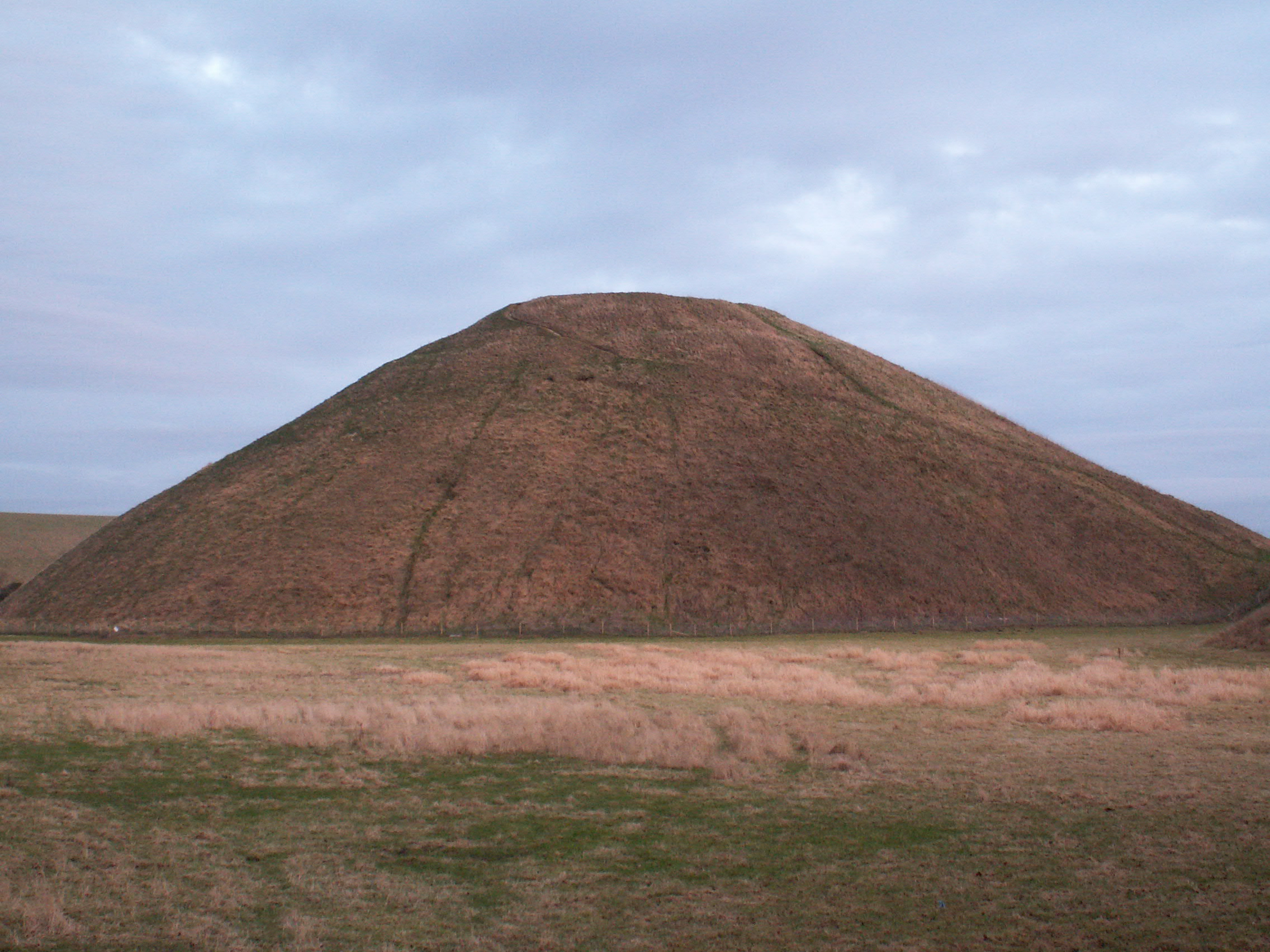 Silbury Hill, GB, UNESCO World Heritage Site